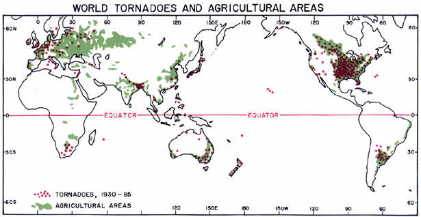 Density of report of tornadoes versus agricultural lands in the World.